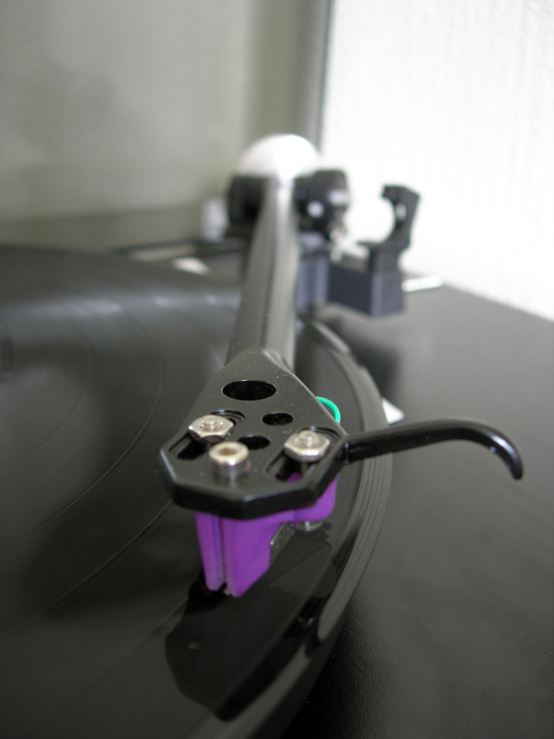 The arm of a Rega Planar 3 turntable